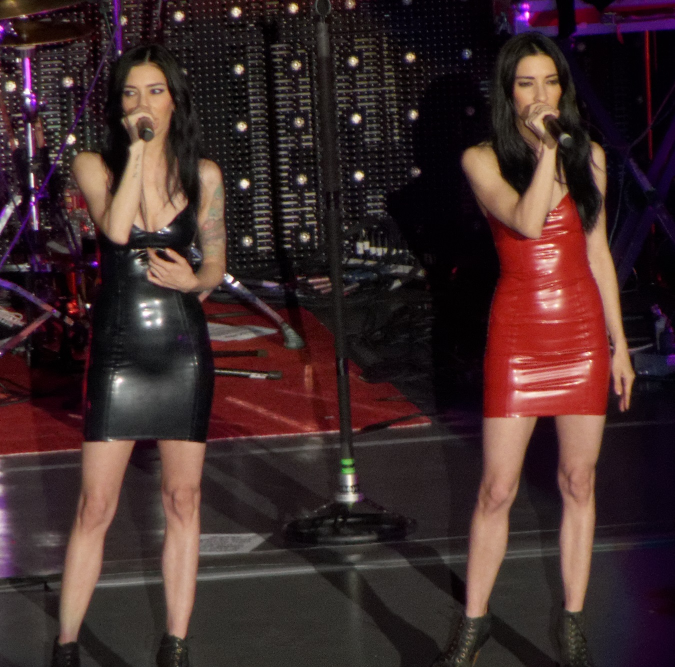 The Veronicas performing live at The Forum in Inglewood California on Saturday November 15h, 2014.